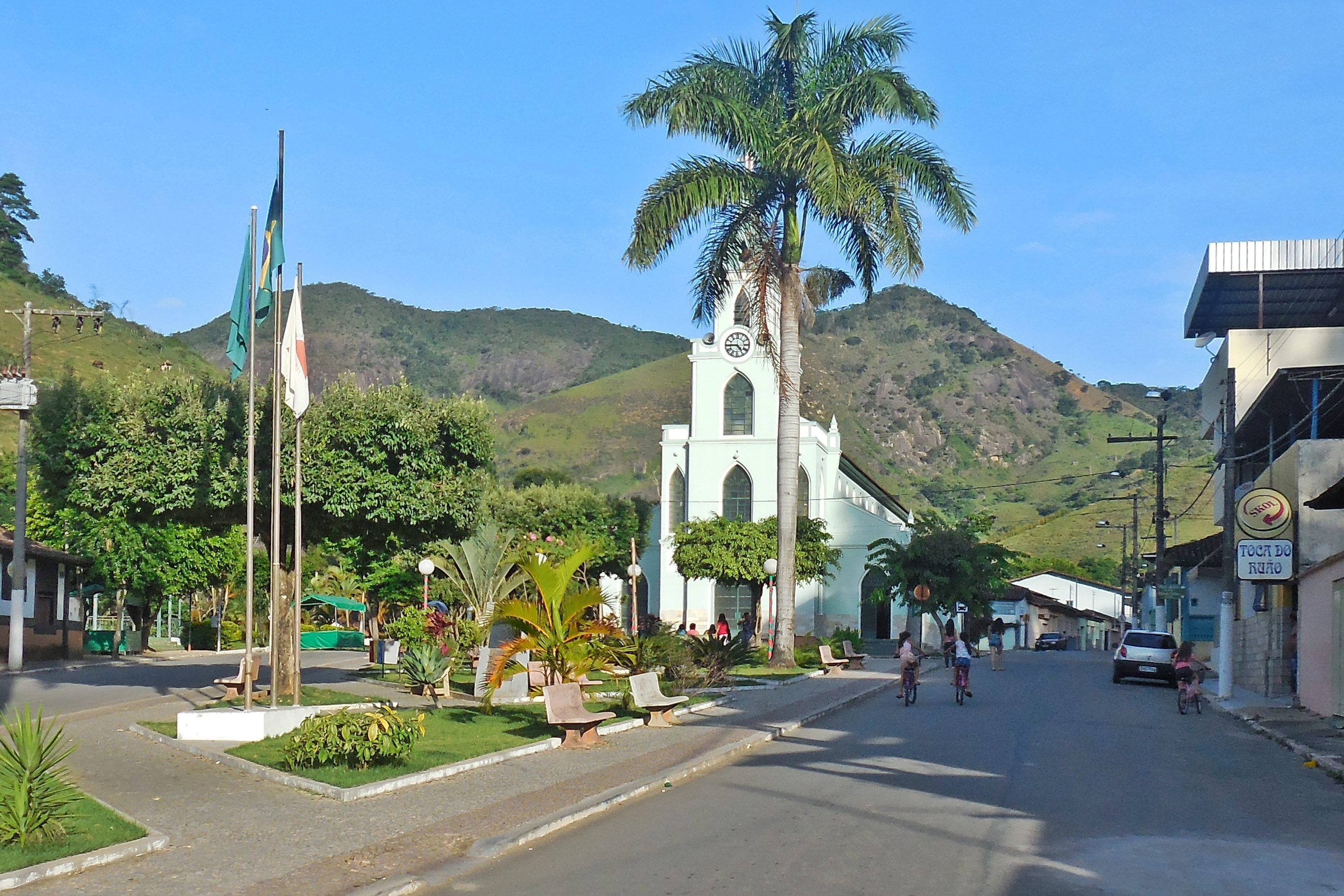 View of the JK square with the Our Lady of Sorrows Mother Church in the background, in Marliéria, Minas Gerais, Brazil.